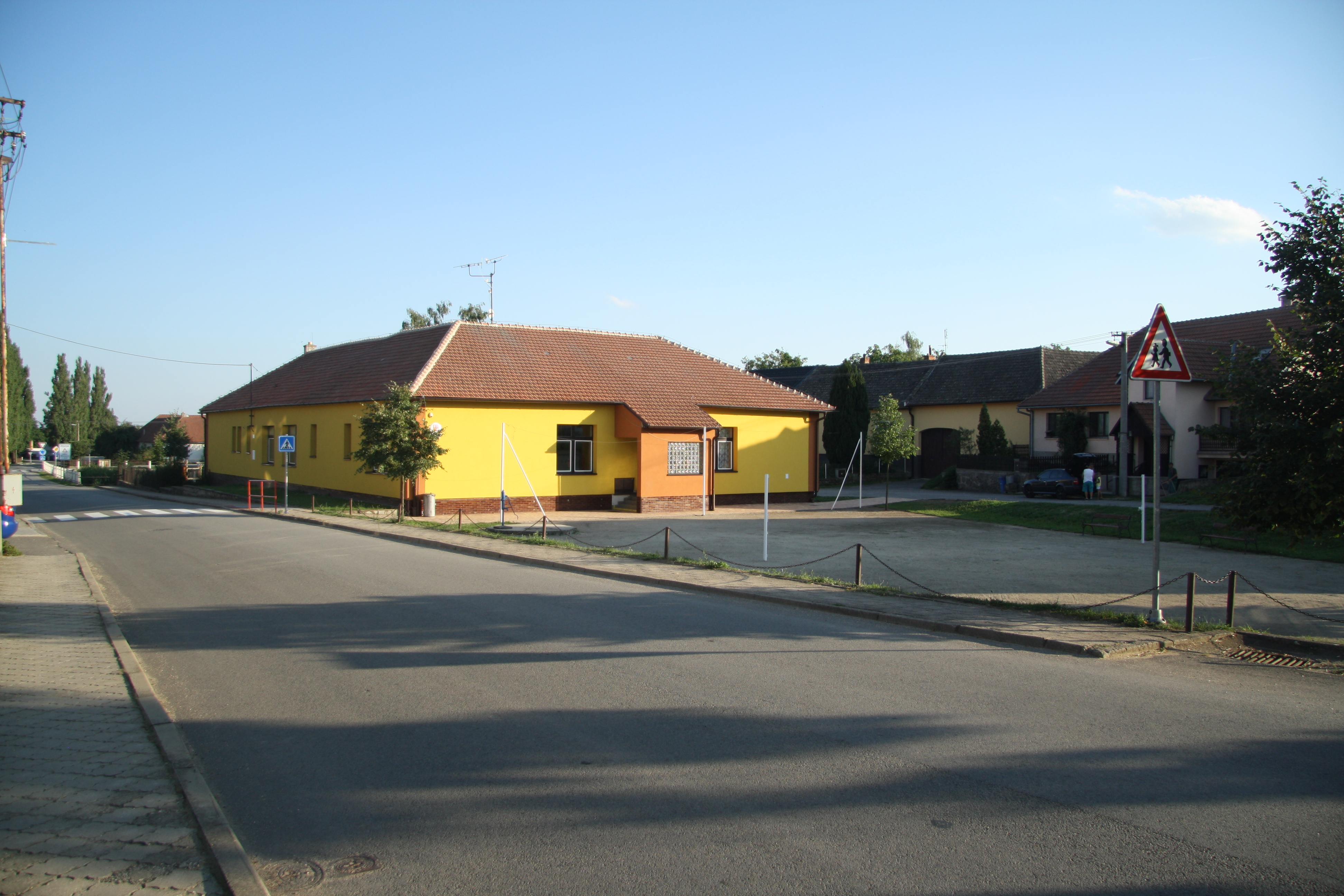 Center of Dolní Heřmanice, Žďár nad Sázavou District.